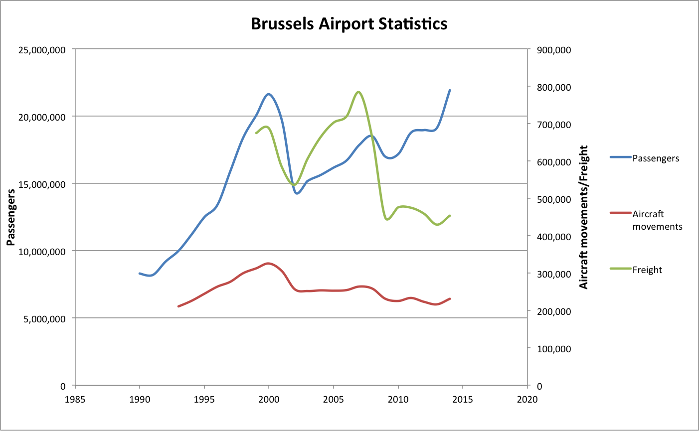 Statistics of the Brussels Airport from 1990 to 2014 incl. passengers, transfer passengers, flights handled and freight (in t).